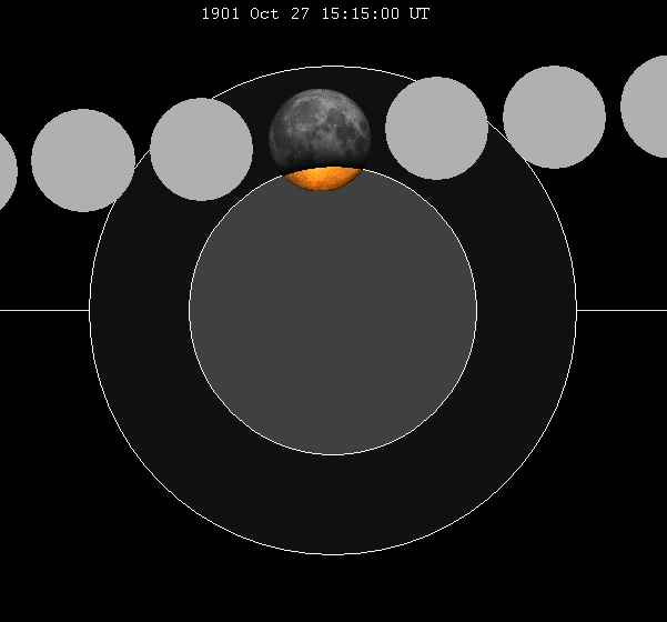 October 1901 lunar eclipse chart of moon's path through the earth's shadow. thumb